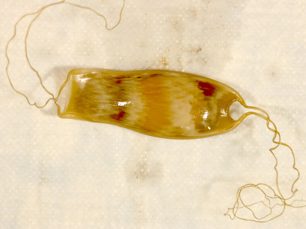 Chain dogfish (Scyliorhinus retifer) egg case